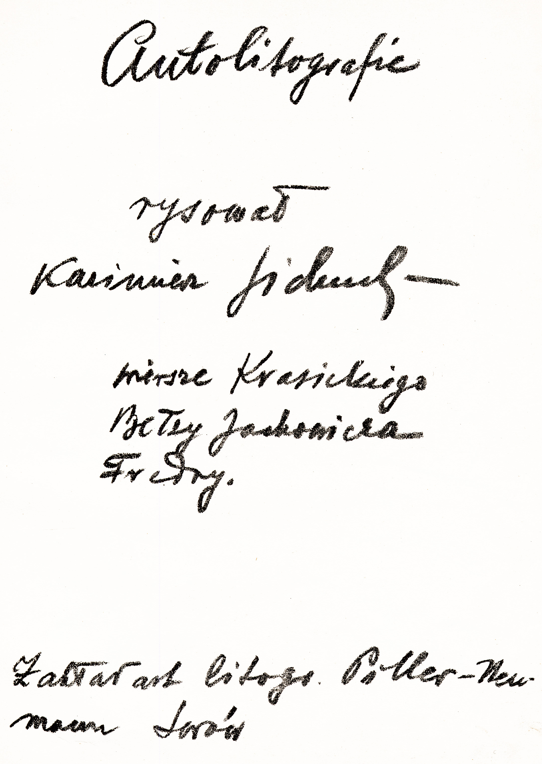 Hand-written text by Kazimierz Sichulski